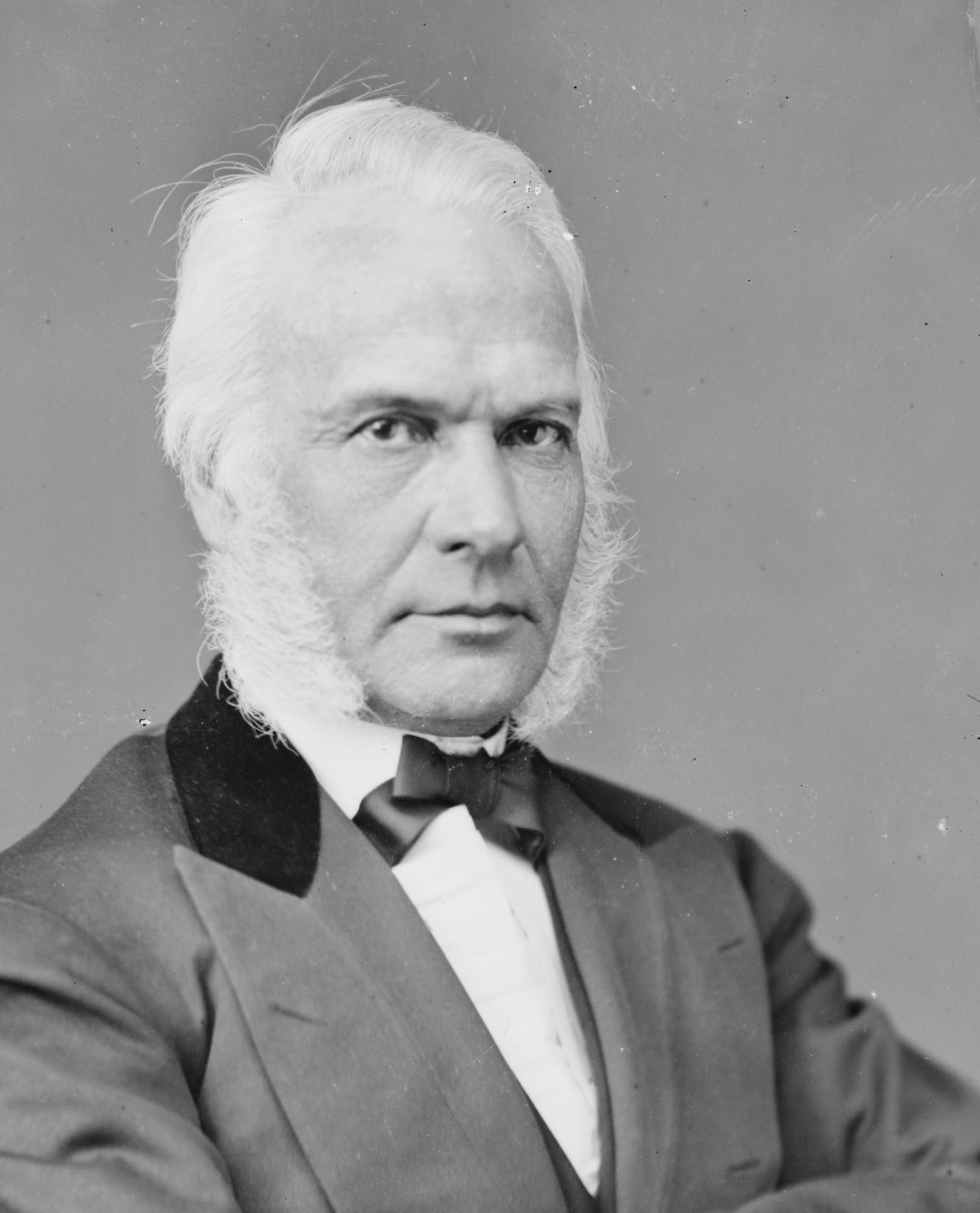 Luke P. Poland from (cropped and retouched slightly) TITLE: Hon. Luke Potter Poland of Vermont CALL NUMBER: LC-BH83- 383 [P&P] REPRODUCTION NUMBER: LC-DIG-cwpbh-00264 (digital file from original neg.) No known restrictions on publication. MEDIUM: 1 negative : glass, wet collodion. CREATED/PUBLISHED: [between 1860 and 1875] NOTES: Title from unverified information on negative sleeve. Annotation from negative, scratched into emulsion: Luke P. Roland. Annotation from negative, glass side, top: ___ Judge Luke _____. Forms part of Brady-Handy Photograph Collection (Library of Congress). FORMAT: Portrait photographs 1860-1880. Glass negatives 1860-1880. REPOSITORY: Library of Congress Prints and Photographs Division Washington, D.C. 20540 USA DIGITAL ID: (digital file from original neg.) cwpbh 00264 CARD #: brh2003001057/PP